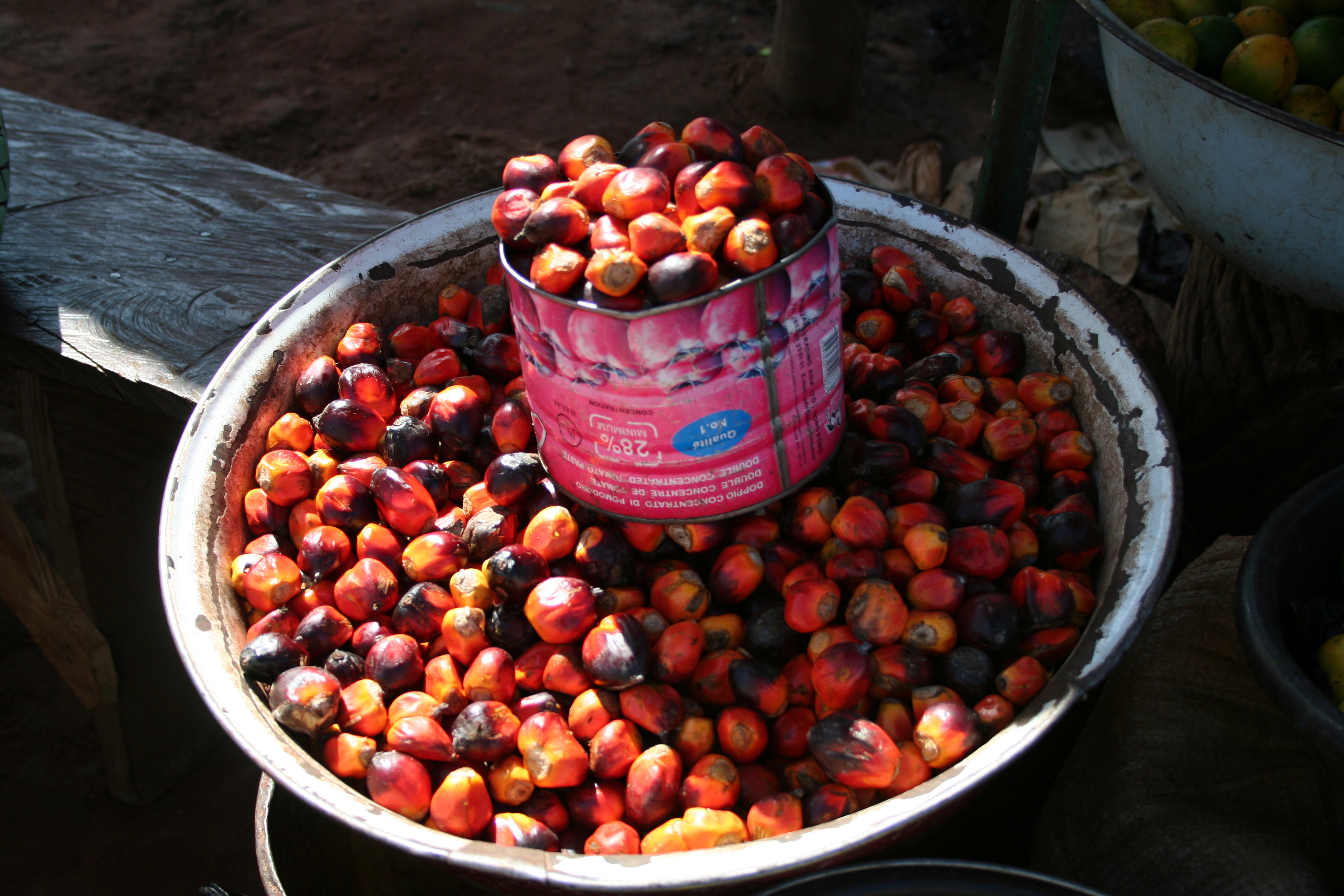 Fruits of Elaeis guineensis, market of Orodara, Burkina Faso